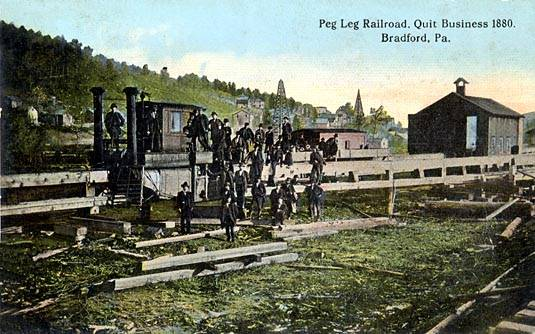 "Peg Leg Railroad, Quit Business 1880, Bradford, PA" The Bradford & Foster Brook Railway was one of, if not the first, monorails in America. Inspired by a working demonstration of the Centennial Monorail at the Philadelphia Centennial Exposition of 1876, Col. Roy Stone thought it would solve transportation problems near Bradford.